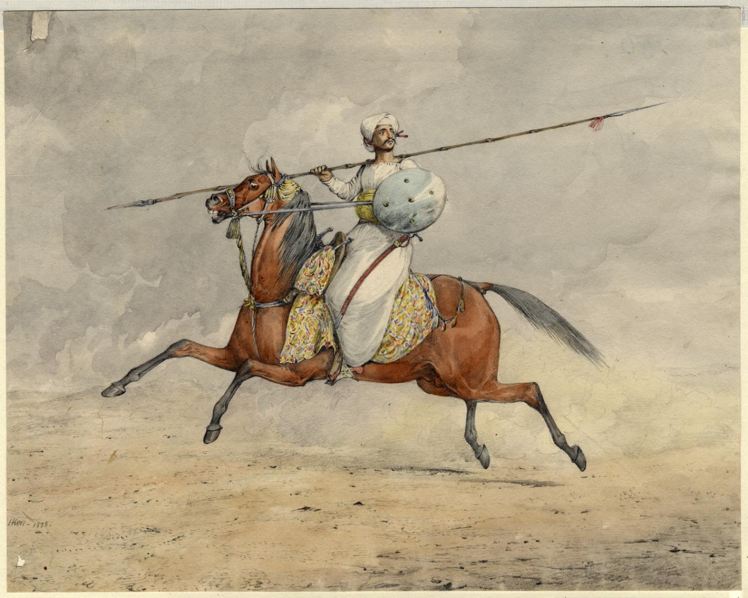 Publication/Creation: 1828 Creators and Contributors: Alken, Henry, 1785-1851 (artist) Description: Physical Description: 1 watercolor; 20.7 x 26.1 cm. reformatted digital Abstract: Original watercolor signed and dated by Alken; horseman in military dress, with shield and lance, riding towards left. Call Number: IndUO1828sf-1 (ASK Brown Call No.) General notes: Small oblong folio, matted; no margins; small hole in lower left corner, discoloration in upper left, otherwise clean. Title supplied by cataloger. Other notes: N.Y., Rockman, '52. Rd. Provenance: N.Y., Rockman, '52. Rd.